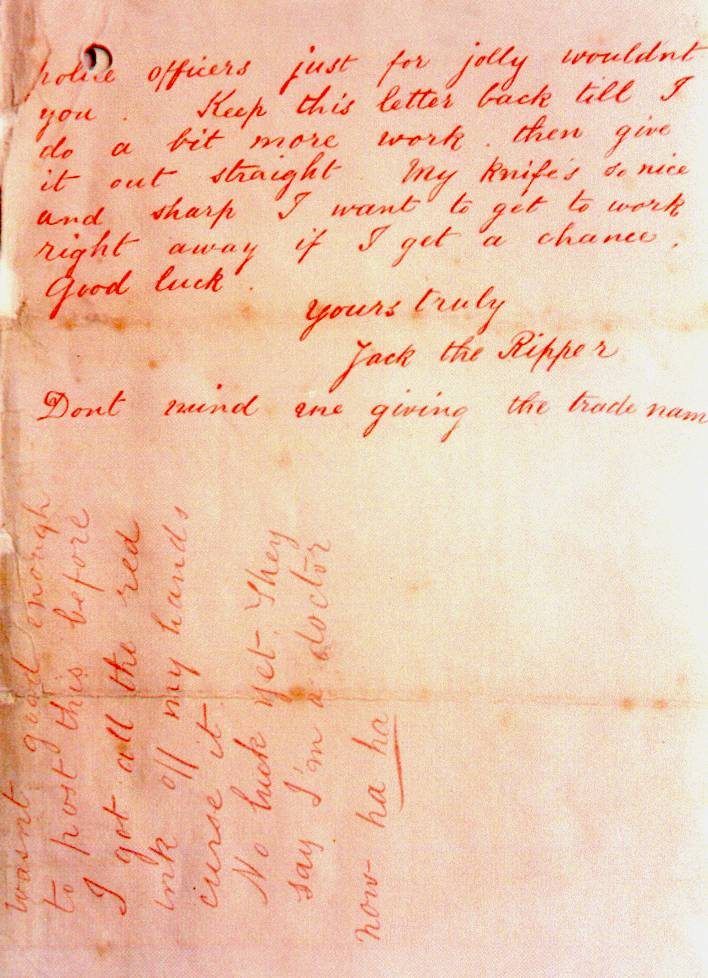 Jack the Ripper's "Dear Boss" letter (part 2).